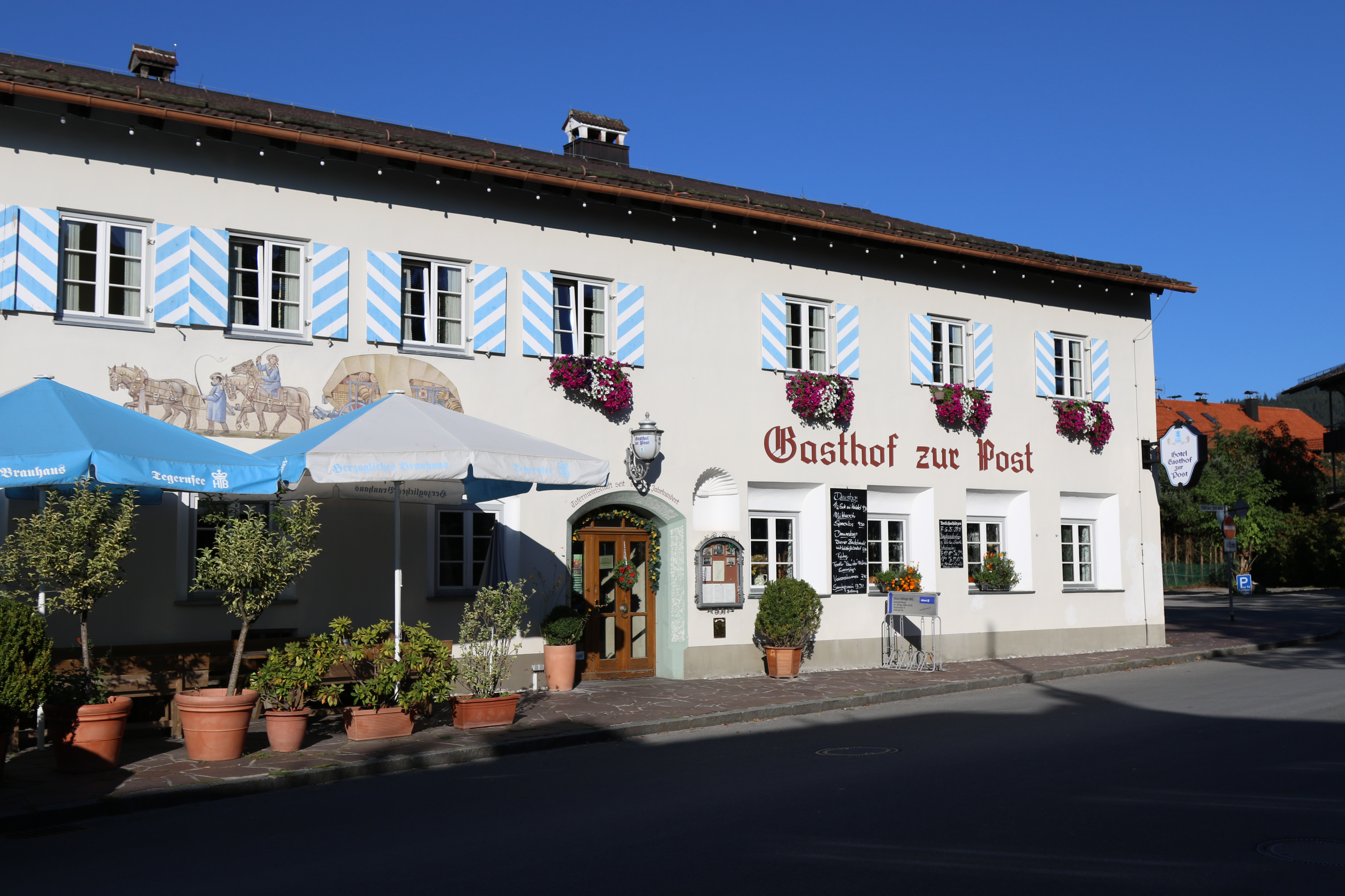 View of the historic Gastof zur Post from the west-north-westerly crossing. The umbrellas, left lying from the main entrance of the economy, shadowing an additional dispensing area which is used in the summer.This is a photograph of an architectural monument.